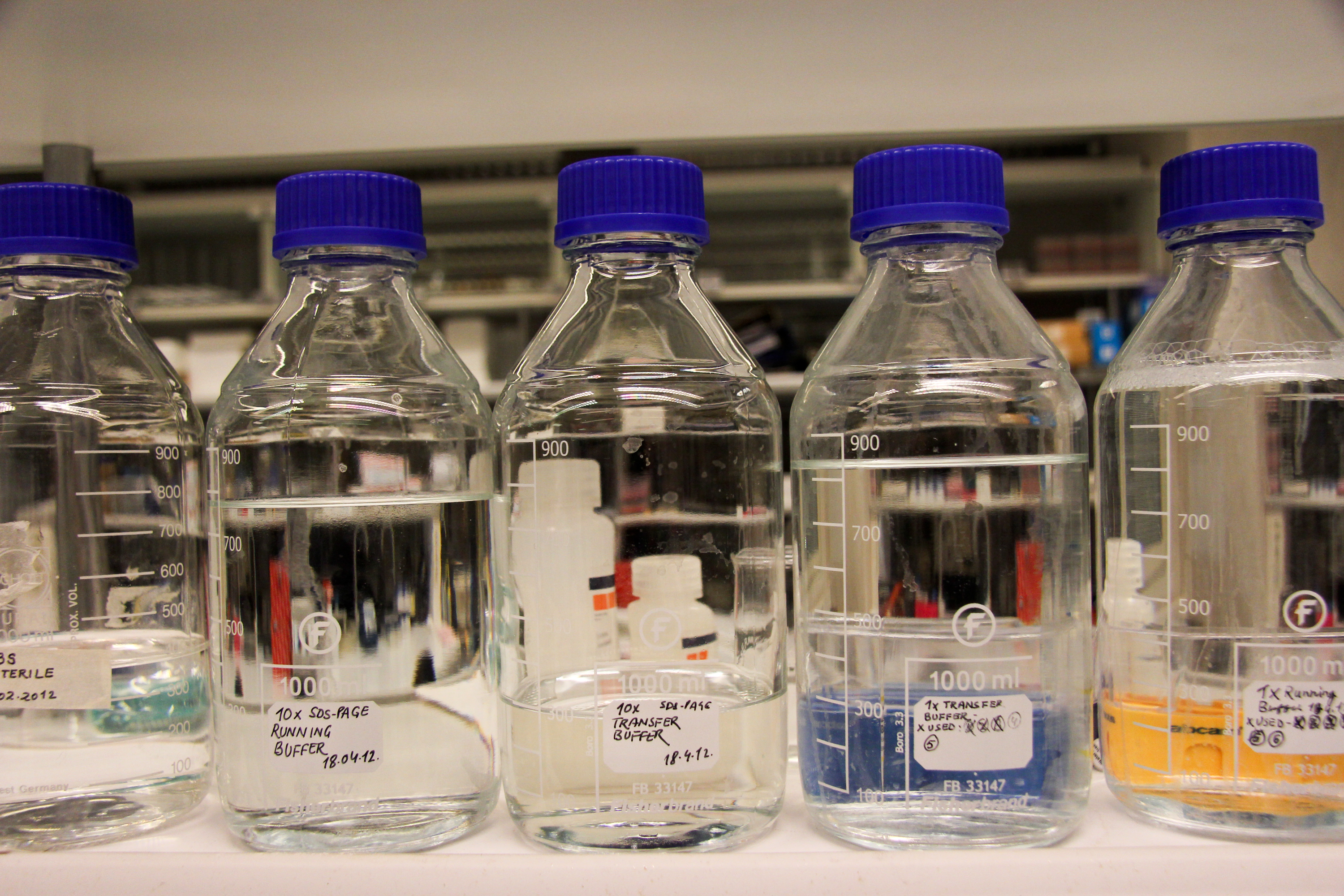 Solutions for electroforesis. University of Tartu.